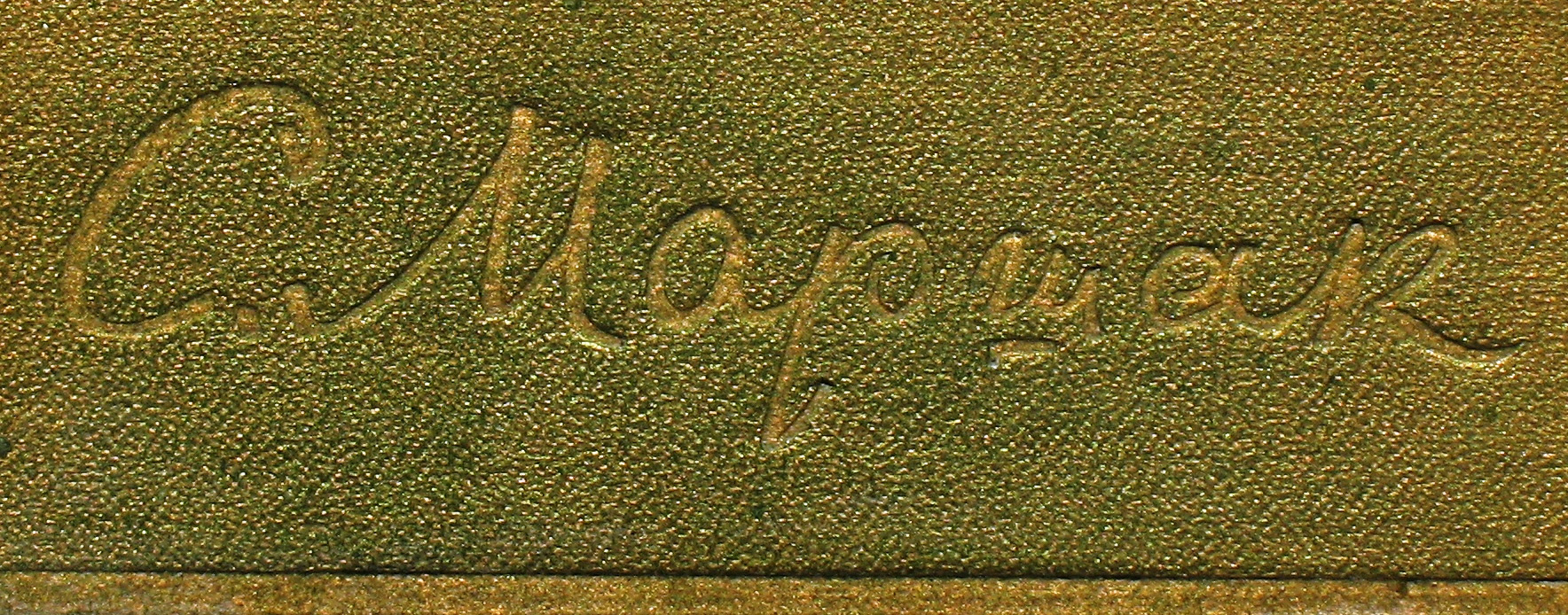 Soviet poet Samuil Marshak signature on his book.